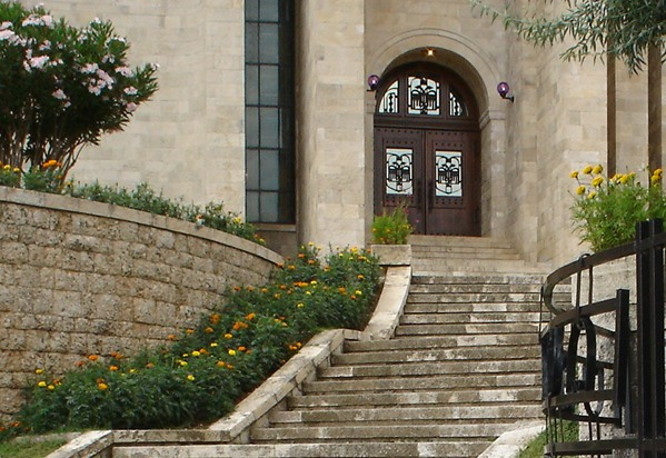 Kruja Castle Location: Kruja, Albania